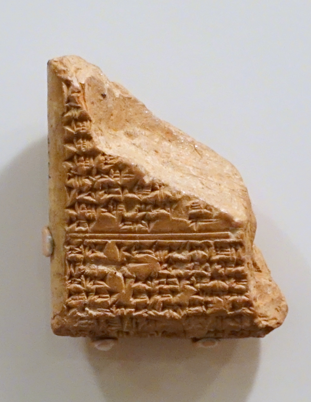 Exhibit in the Oriental Institute Museum, University of Chicago, Chicago, Illinois, USA. This work is old enough so that it is in the public domain.